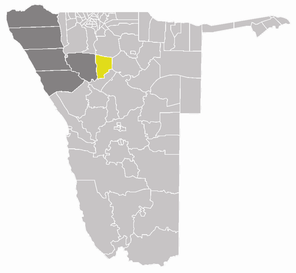 map of the Outjo constituency within the Kunene region, Namibia